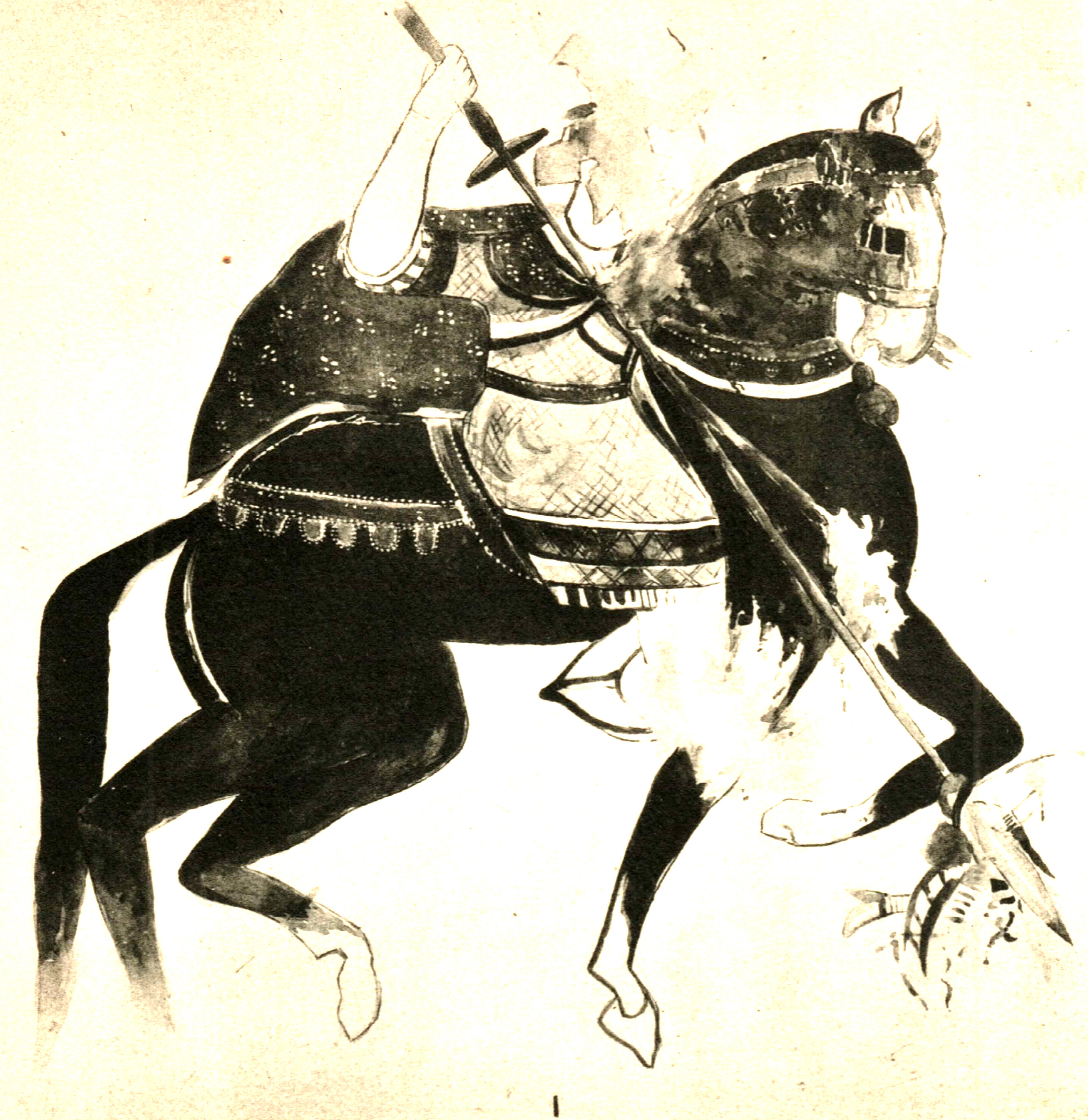 Mounted warrior saint from the so called "Rivergate Church" of Faras (12th century).